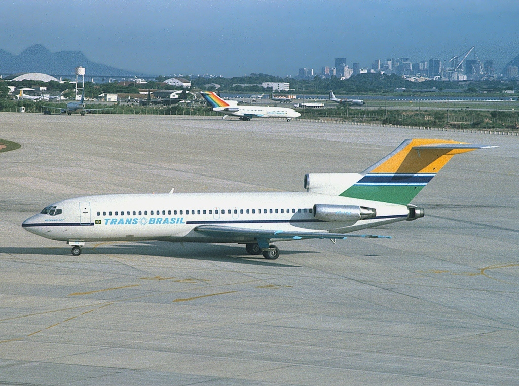 AeroBrasil c/s.